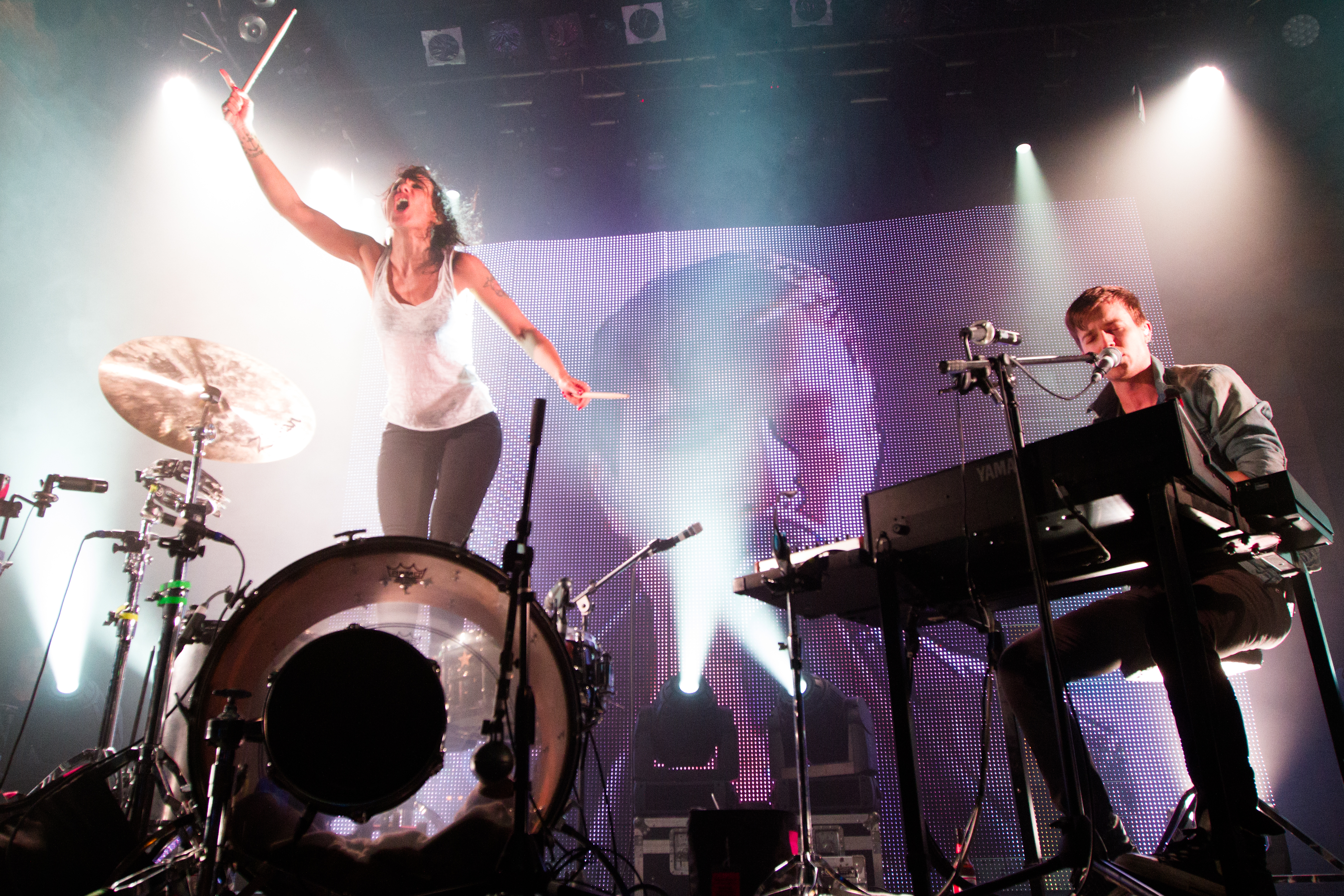 Matt and Kim play at the House of Blues in New Orleans, LA.